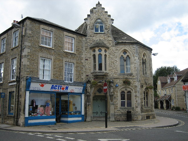 The Cornmarket, Faringdon, Oxfordshire (formerly Berkshire)